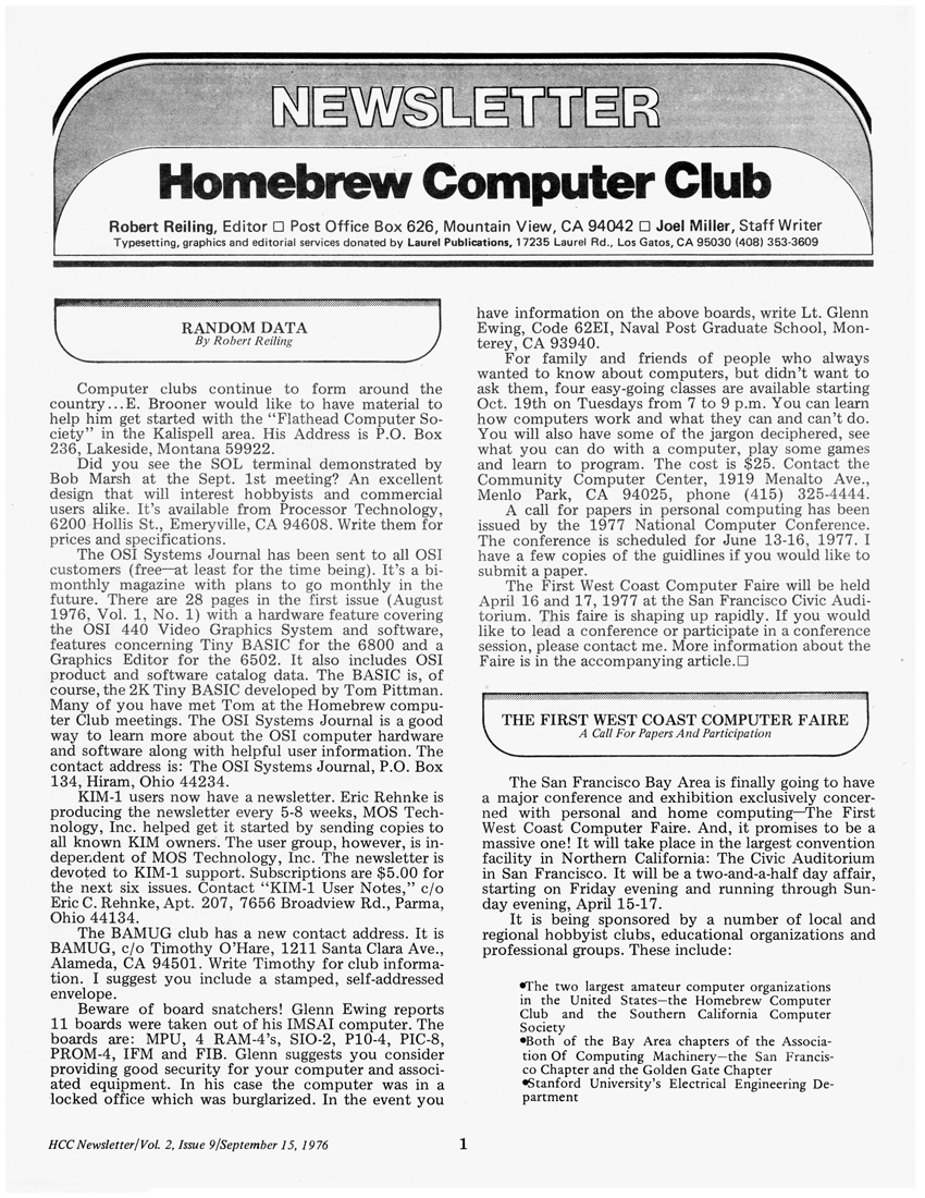 Homebrew Computer Club Newsletter, Volume 2, Issue 9, September 15, 1976. At the bottom of the first column there is a notice that Glenn Ewing had 11 boards stolen from his IMSAI computer in his office at the Naval Postgraduate School in Monterey, California. Glenn's friend, Gary Kildall was also on the faculty and had developed the CP/M disk operating system for Intel. Glenn convinced Gary to port CP/M to the IMSAI computer.